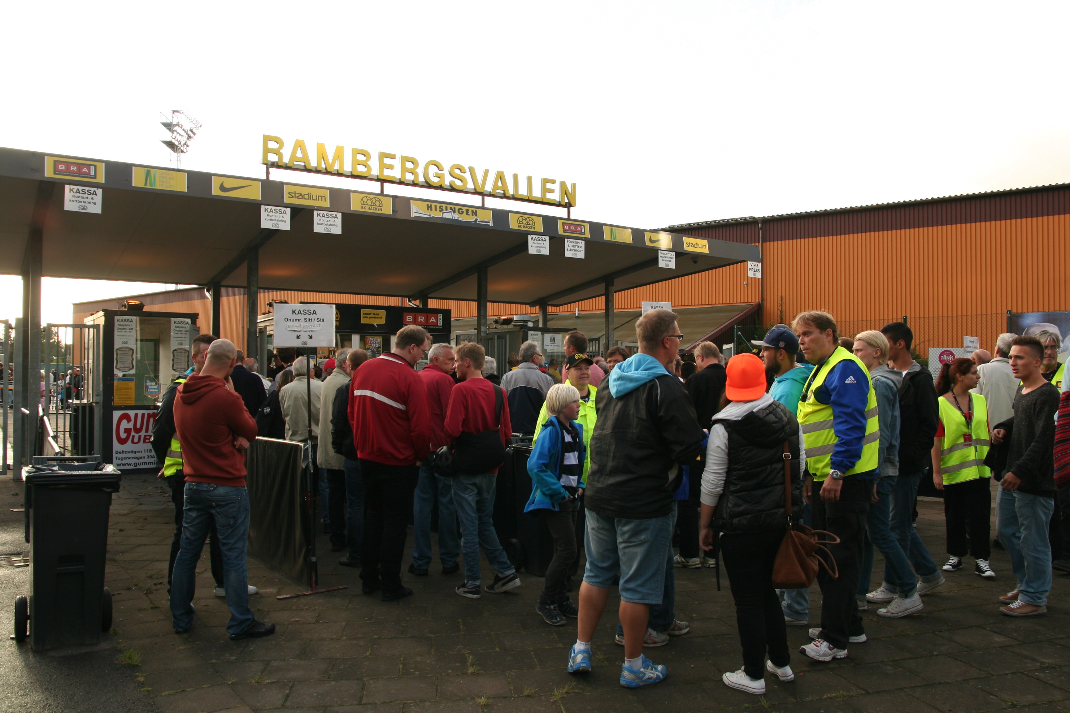 Rambergsvallen in Göteborg, Sweden. Photo of the main entrance.